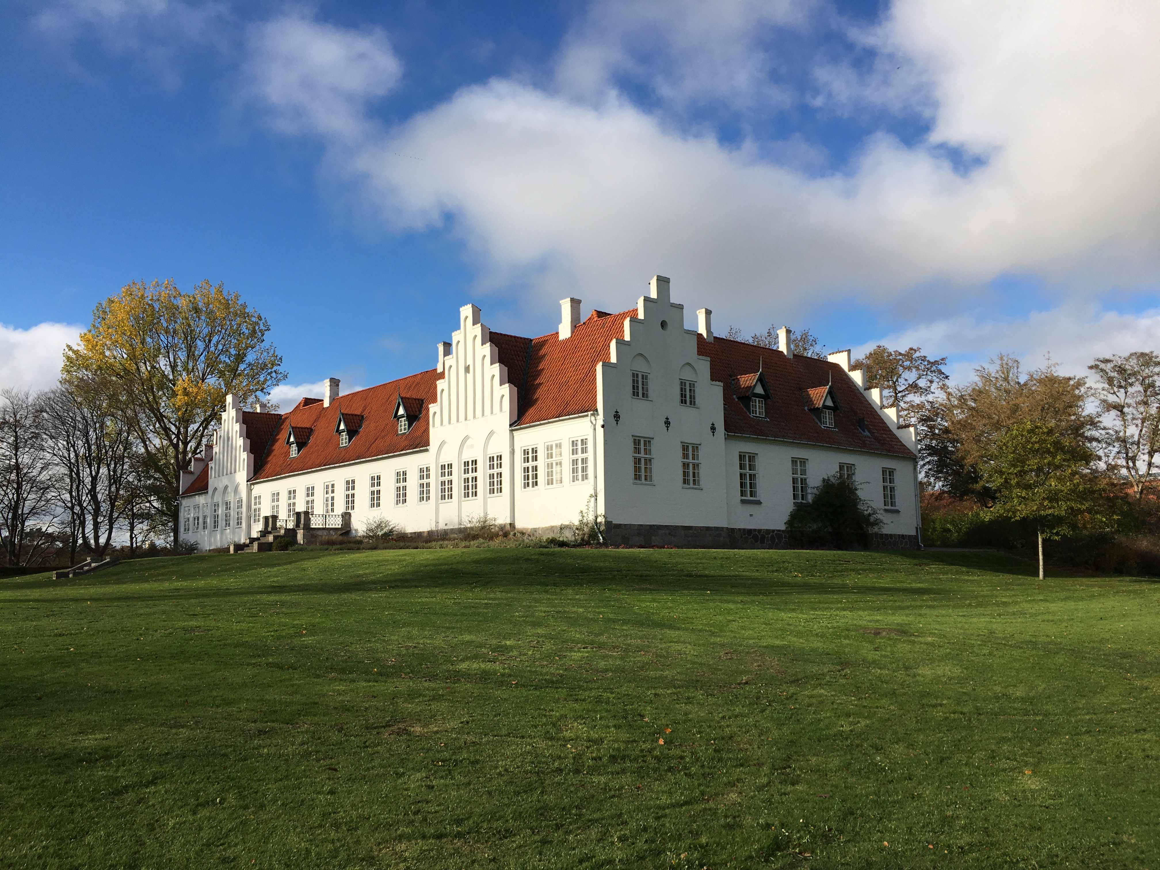 Rønnebæksholm in october 2018.